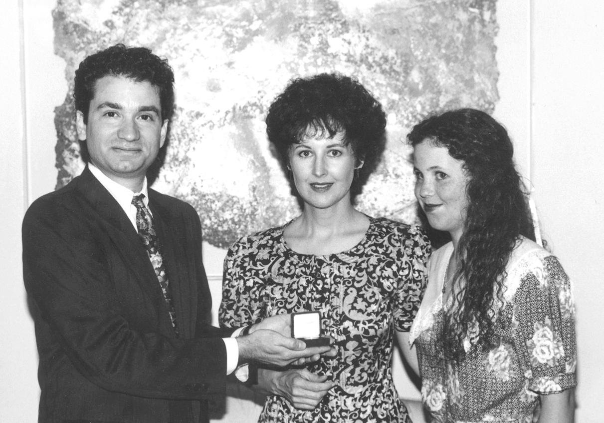 Photographed on Mother's Day, 1993, this was the first Why Mom Deserves a Diamond contest winner. Contest founder Michael (Diamond Mike) Watson awards an unmounted quarter-carat diamond to Margaret Ketchersid. Mother, Ruth.